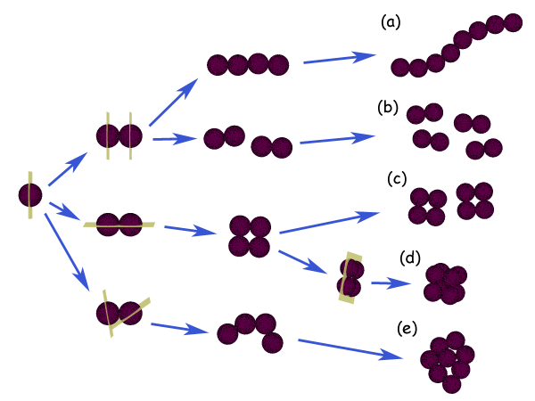 Arrangements of cocci. (a) streptococcus, divide along same plane. (b) diplococcus, make pairs of two cocci after division. (c) tetrad, divide along two planes regularly. (d) sarcina, divide along three planes regularly. (e) staphylococcus, divide along planes irregularly.